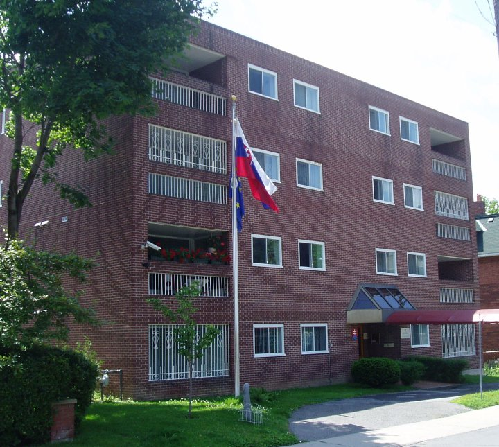 Taken by SimonP in July 2005